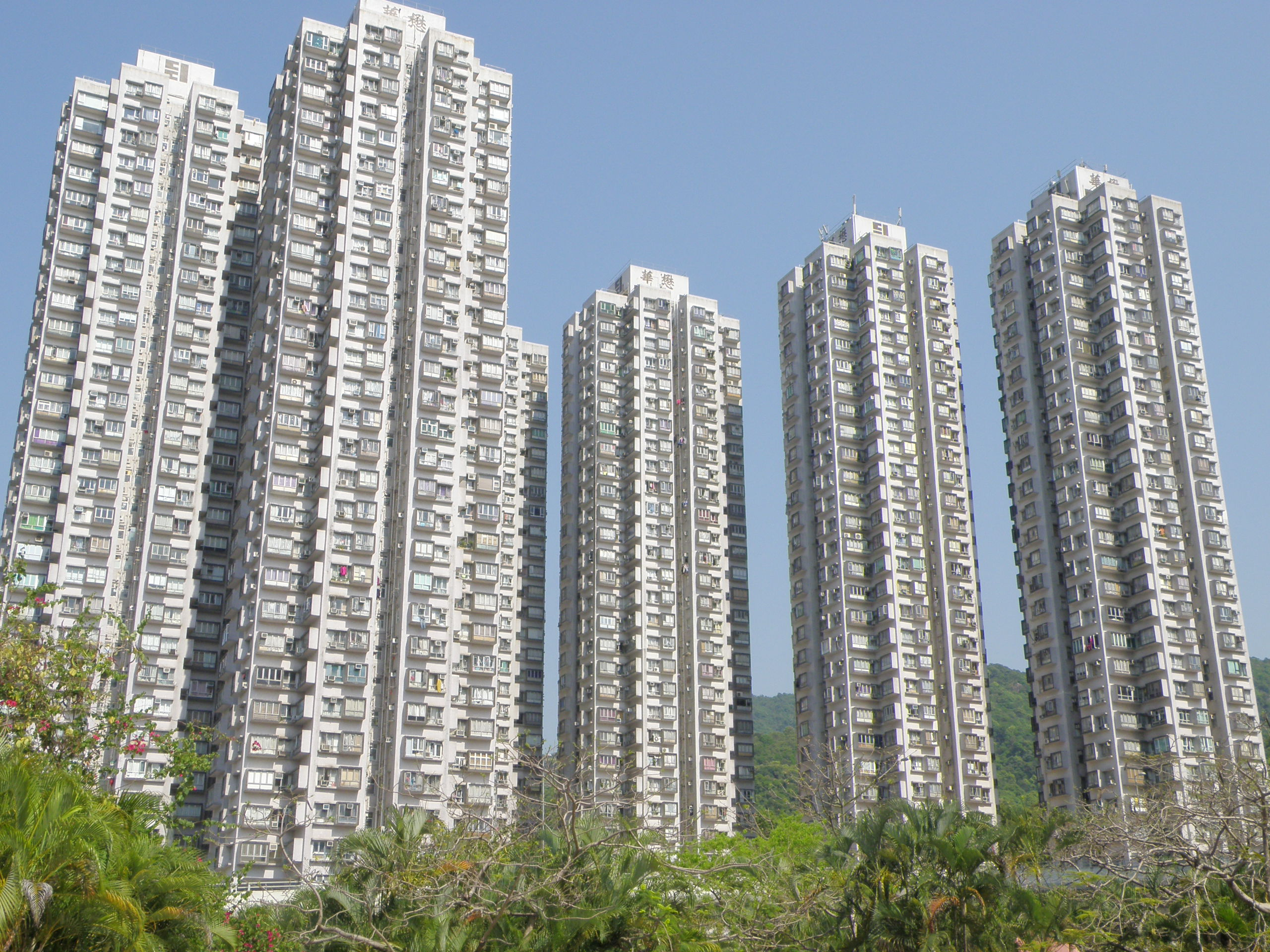 Golden Lion Garden in Tai Wai, Hong Kong.